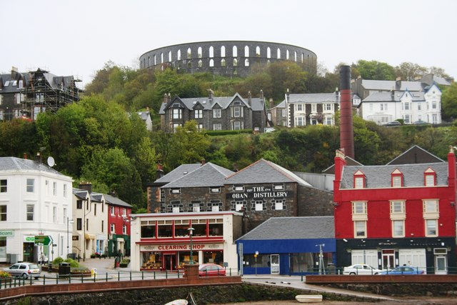 Distillery from the pier Oban Distillery from the North Pier with the iconic Mc Caigs folly behind.